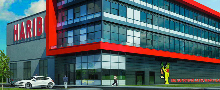 The Haribo factory distribution centre located in Normanton, Yorkshire, UK.